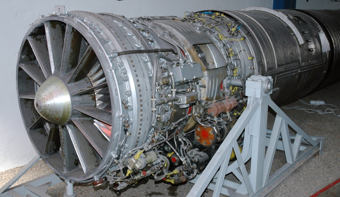 Lyulka AL-7F1 turbojet engine, displayed at the Polish Aviation Museum, Cracow